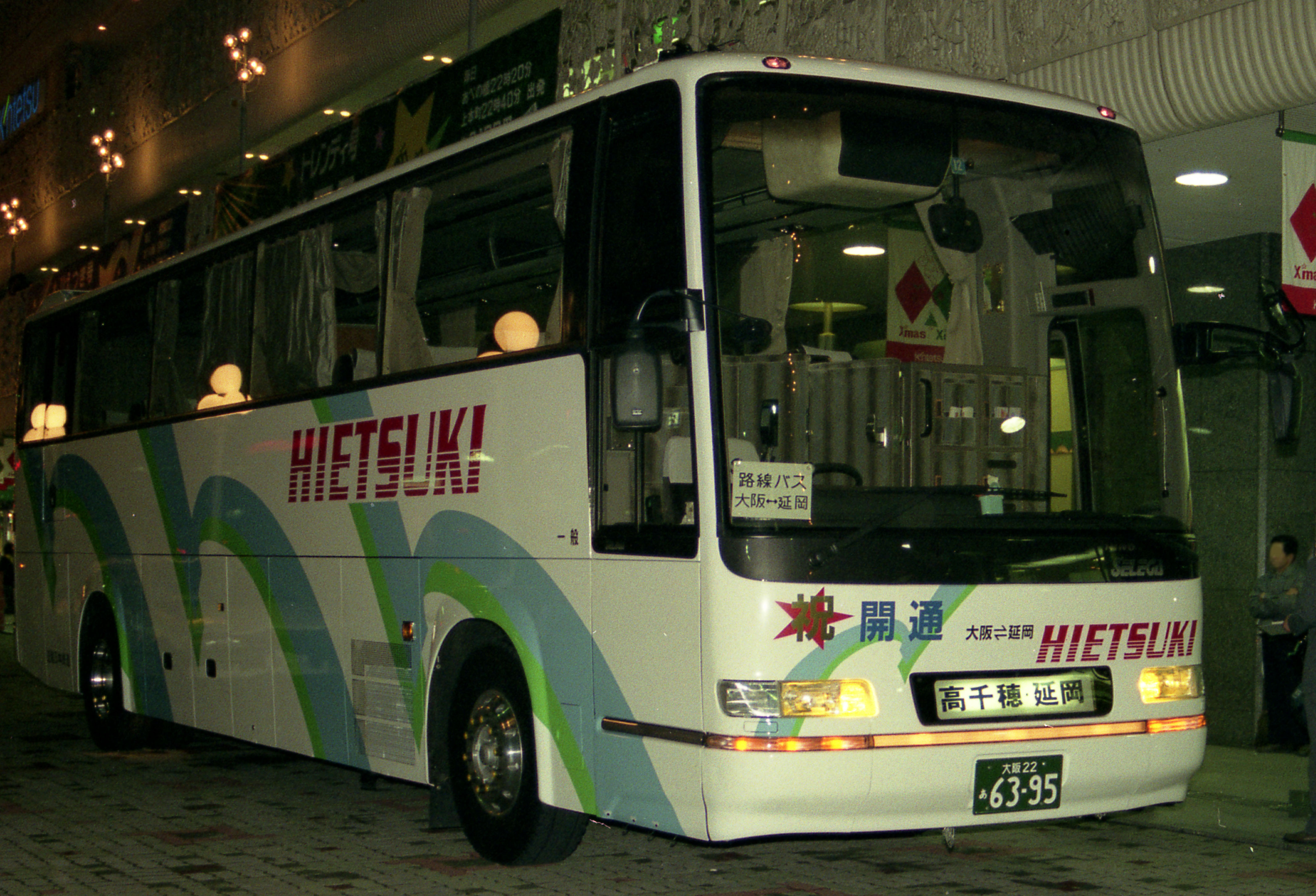 Highwaybus "Hietsuki"(Osaka city - Nobeoka city),Company:Kintetsu